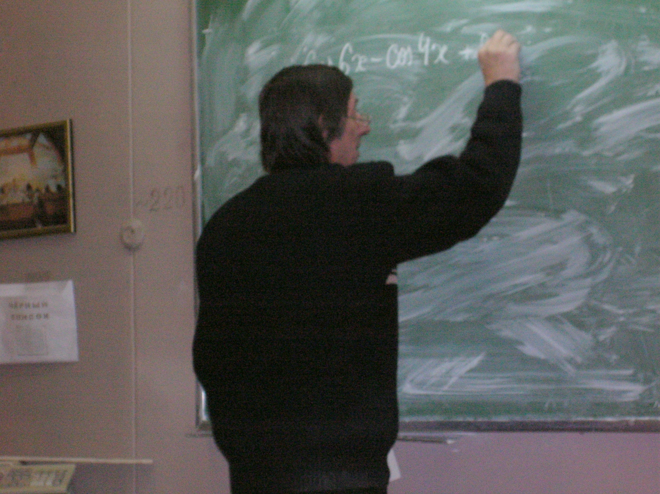 School teacher is using sidewalk chalk